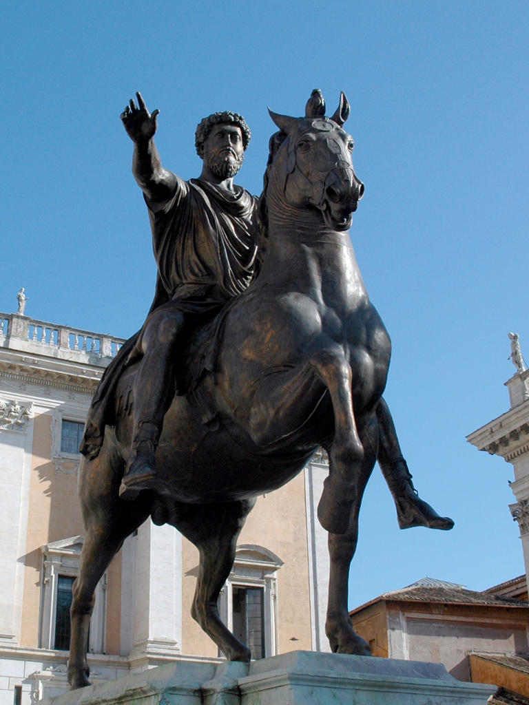 Equestrian statue of Marcus Aurelius, Rome